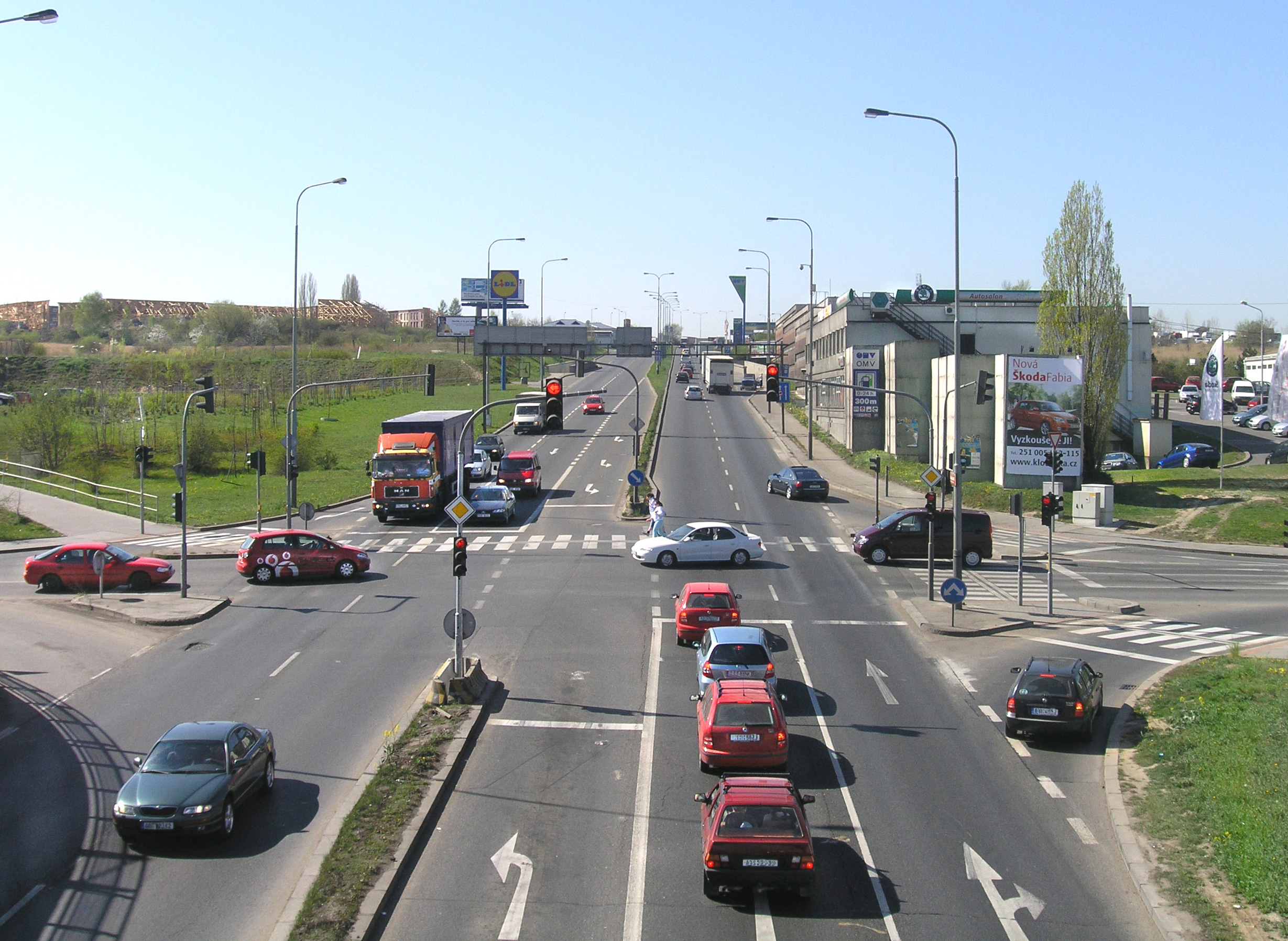 K Barrandovu street, Prague